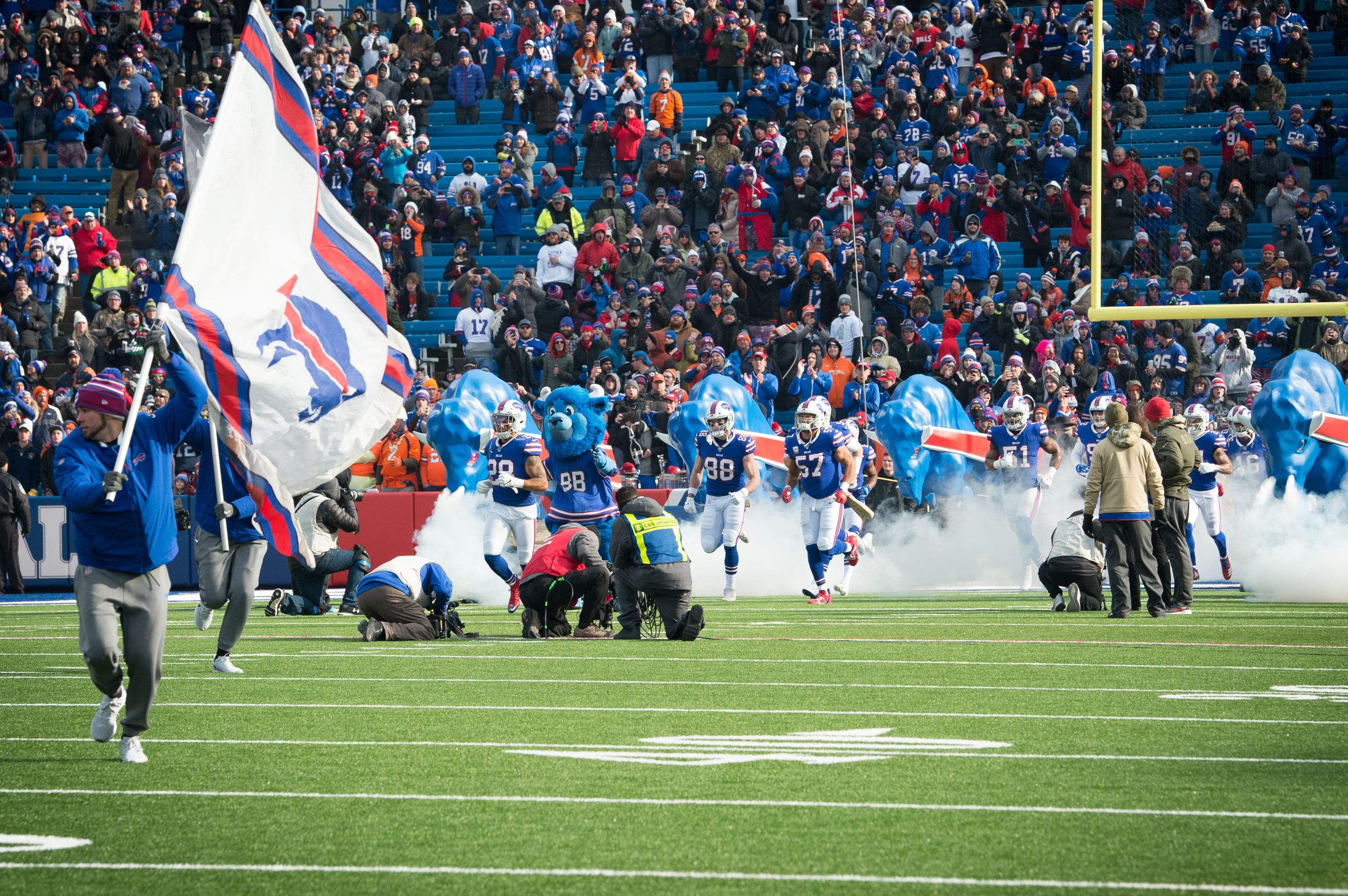 The Buffalo Bills take to the field before the start of the NFL's annual Salute to Service event before their game against the Denver Broncos, Orchard Park, N.Y., Nov. 24, 2019. Service members from all branches of the military were honored and unfurled an American flag over the field. (U.S. Air National Guard photo by Master Sgt. Brandy Fowler)